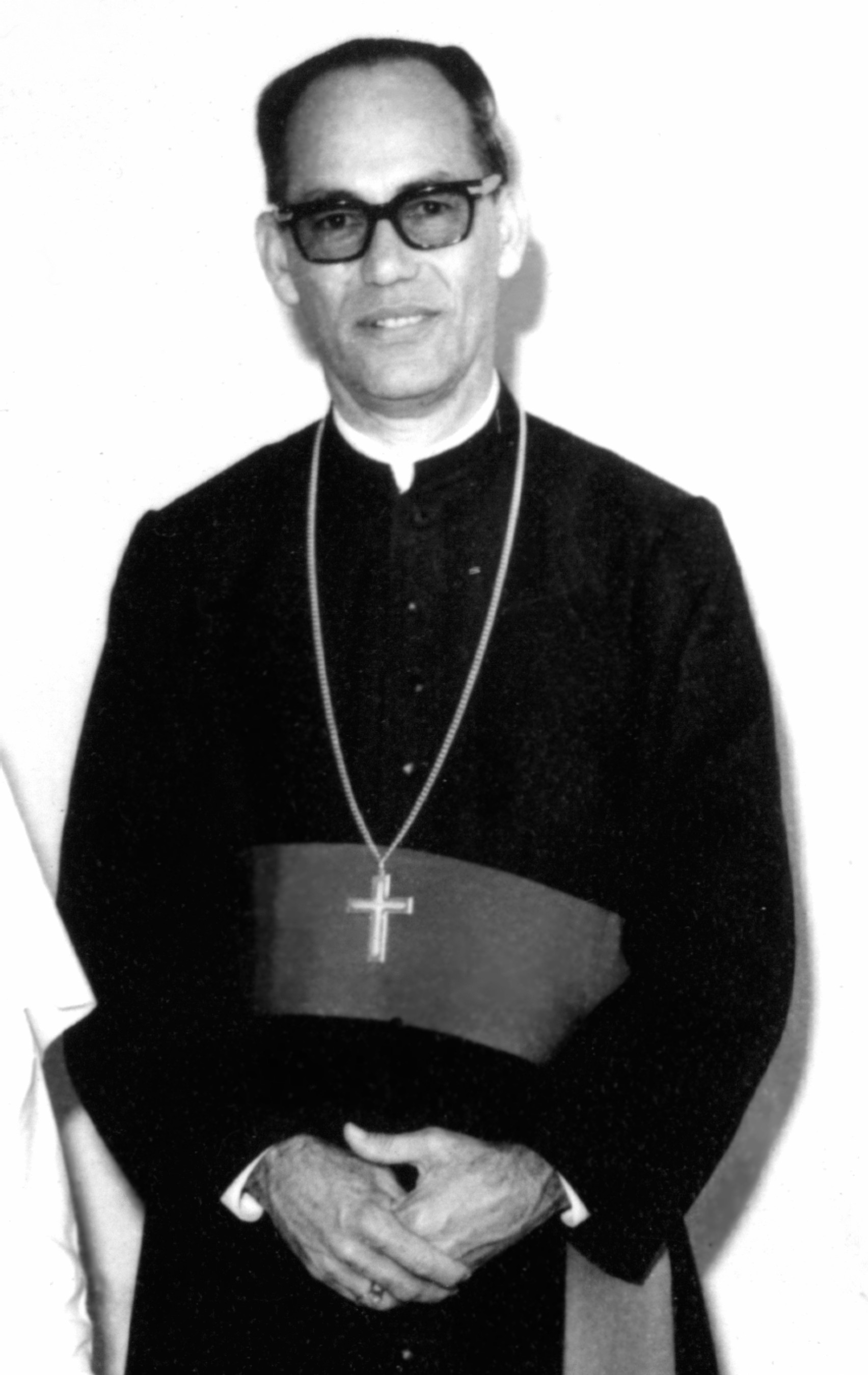 Photo of Bishop D. Silvério Jarbas of Albuquerque, bishop of Caetité